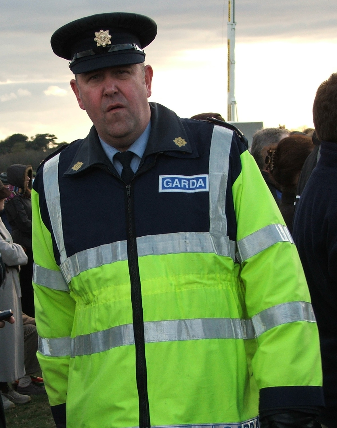 An Irish police officer, garda